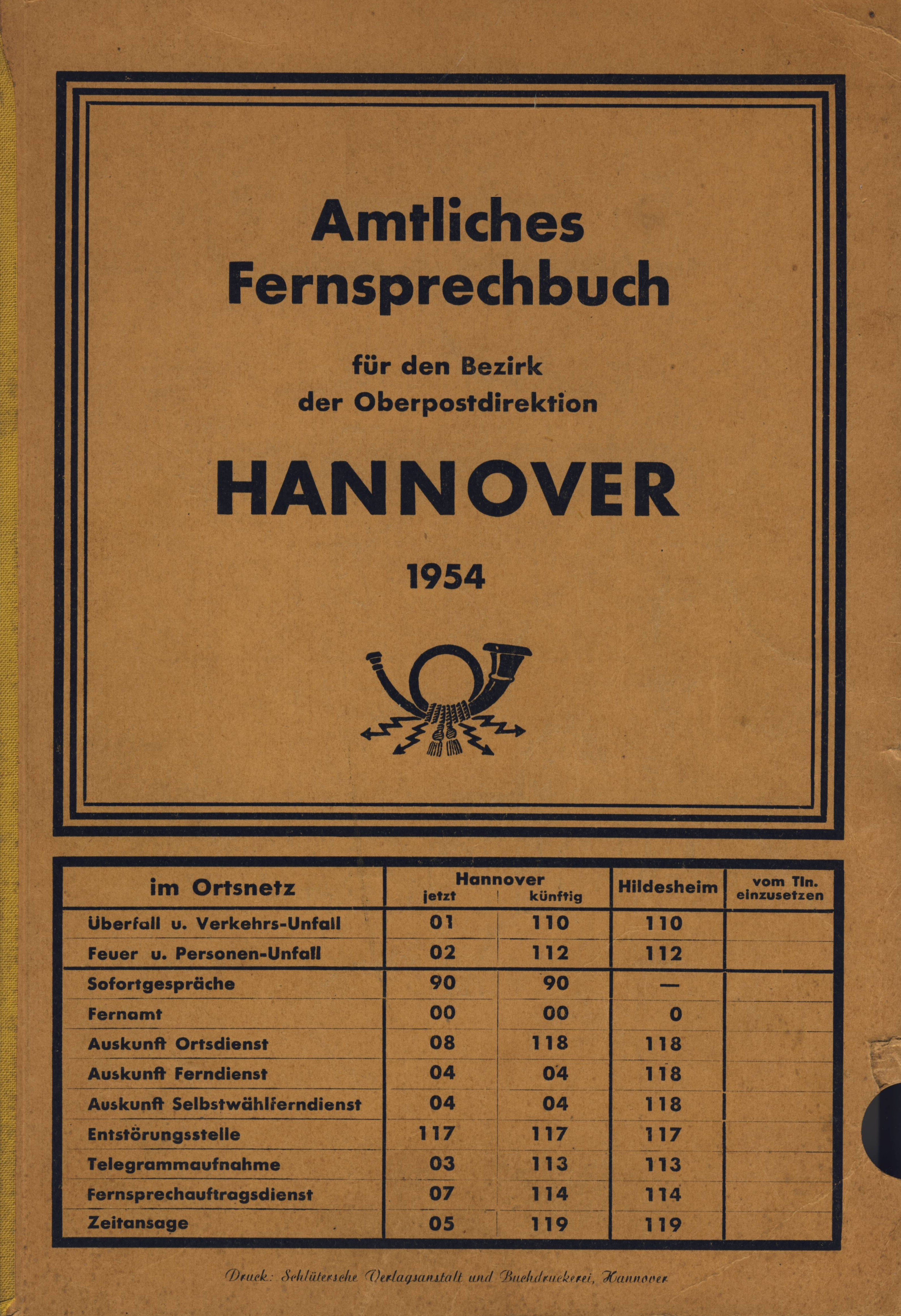 telephone directory, hanover 1954